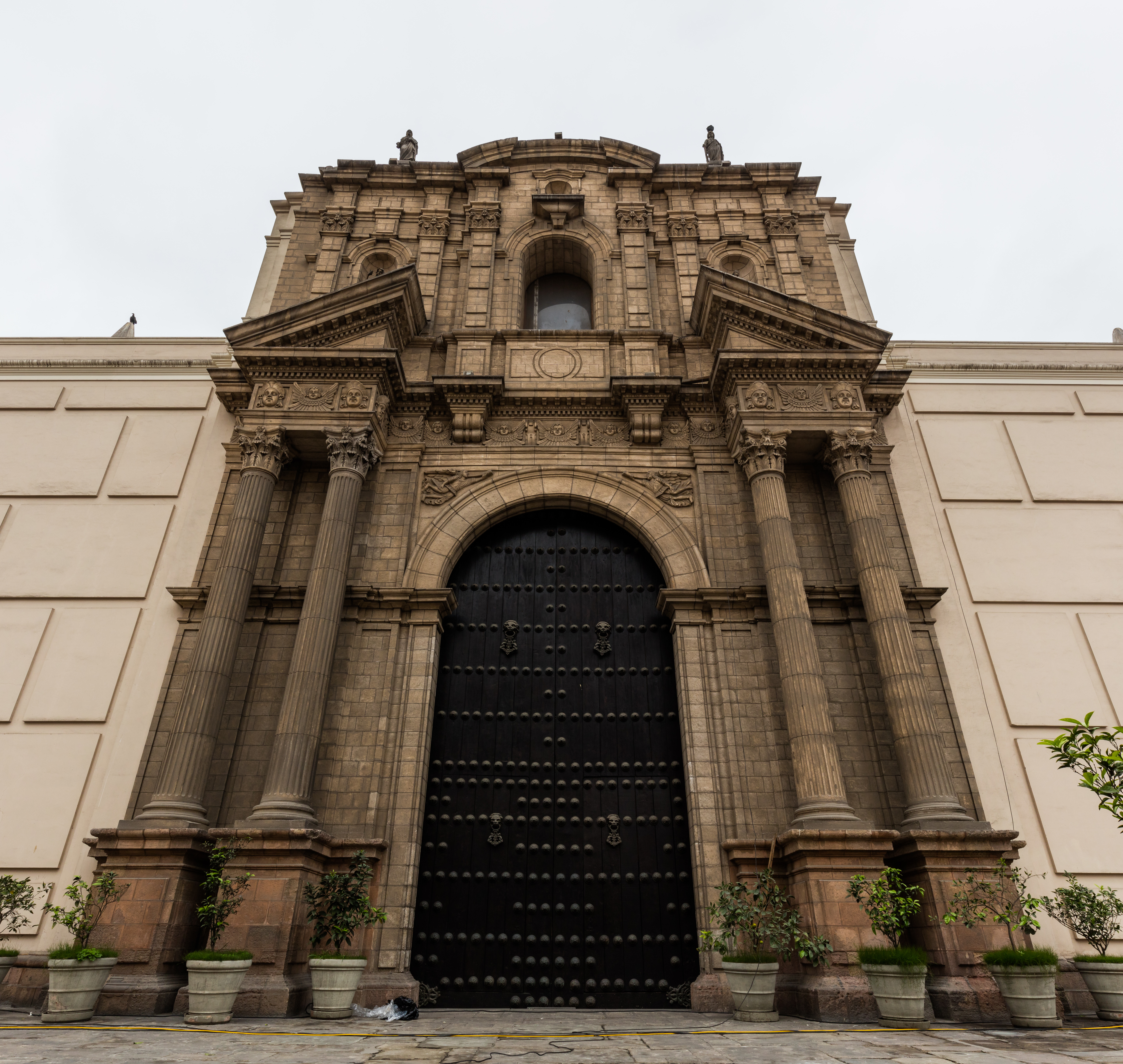 Lima Cathedral, Peru